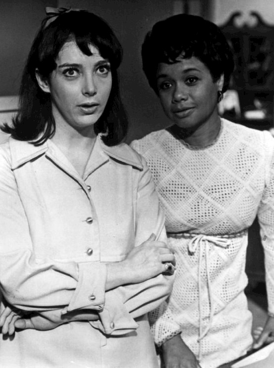 Photo of Barbara Rodell and Micki Grant from the daytime drama Another World.